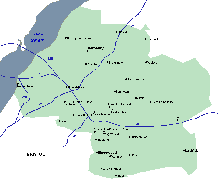 Location of places in South Gloucestershire. Created by Time3000, August 2006.